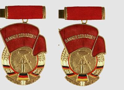 Banner of Labor (DDR)